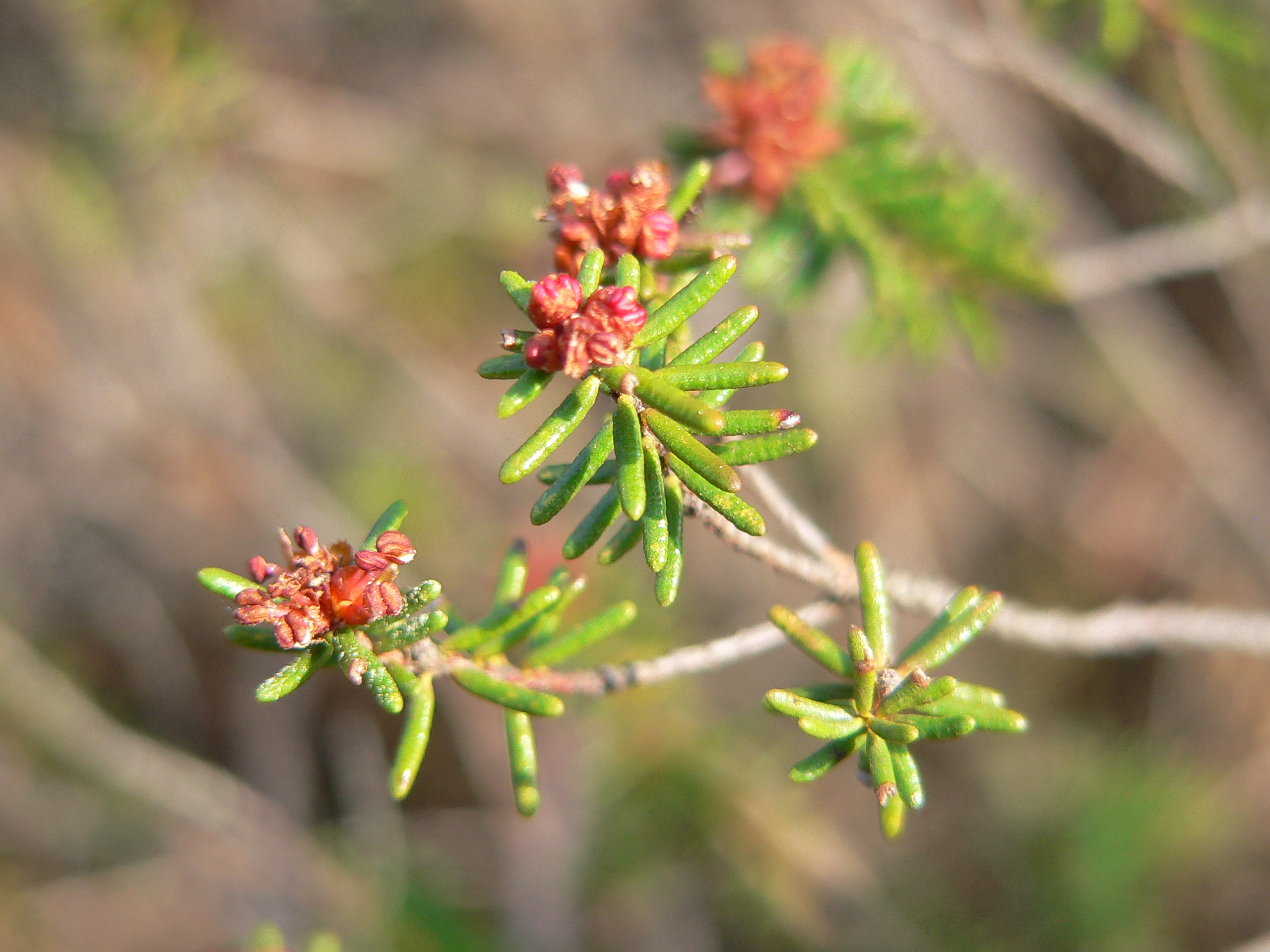 Portuguese Crowberry